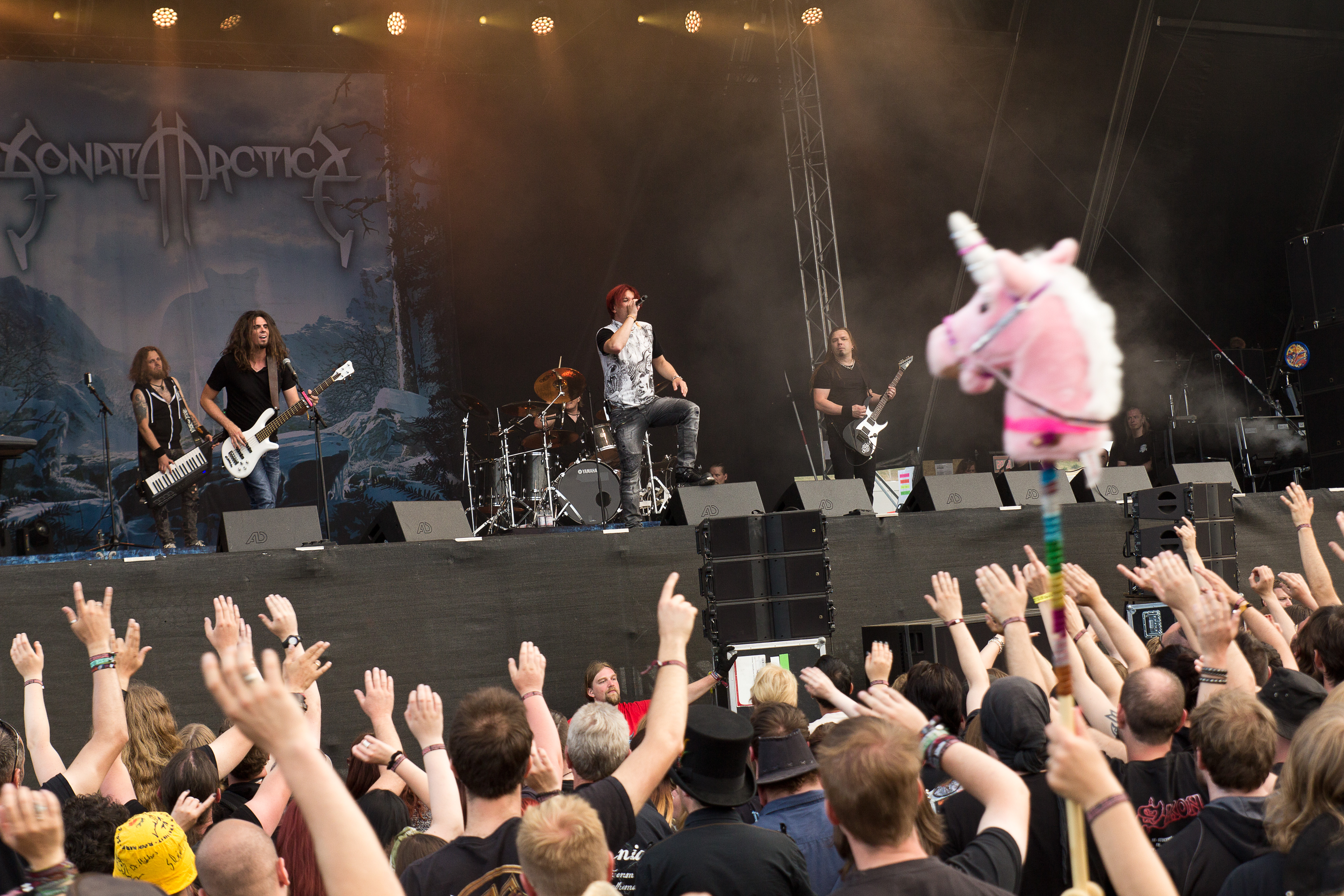 The Finnish power metal band Sonata Arctica at the Rockharz Open Air 2016 in Ballenstedt/Germany.